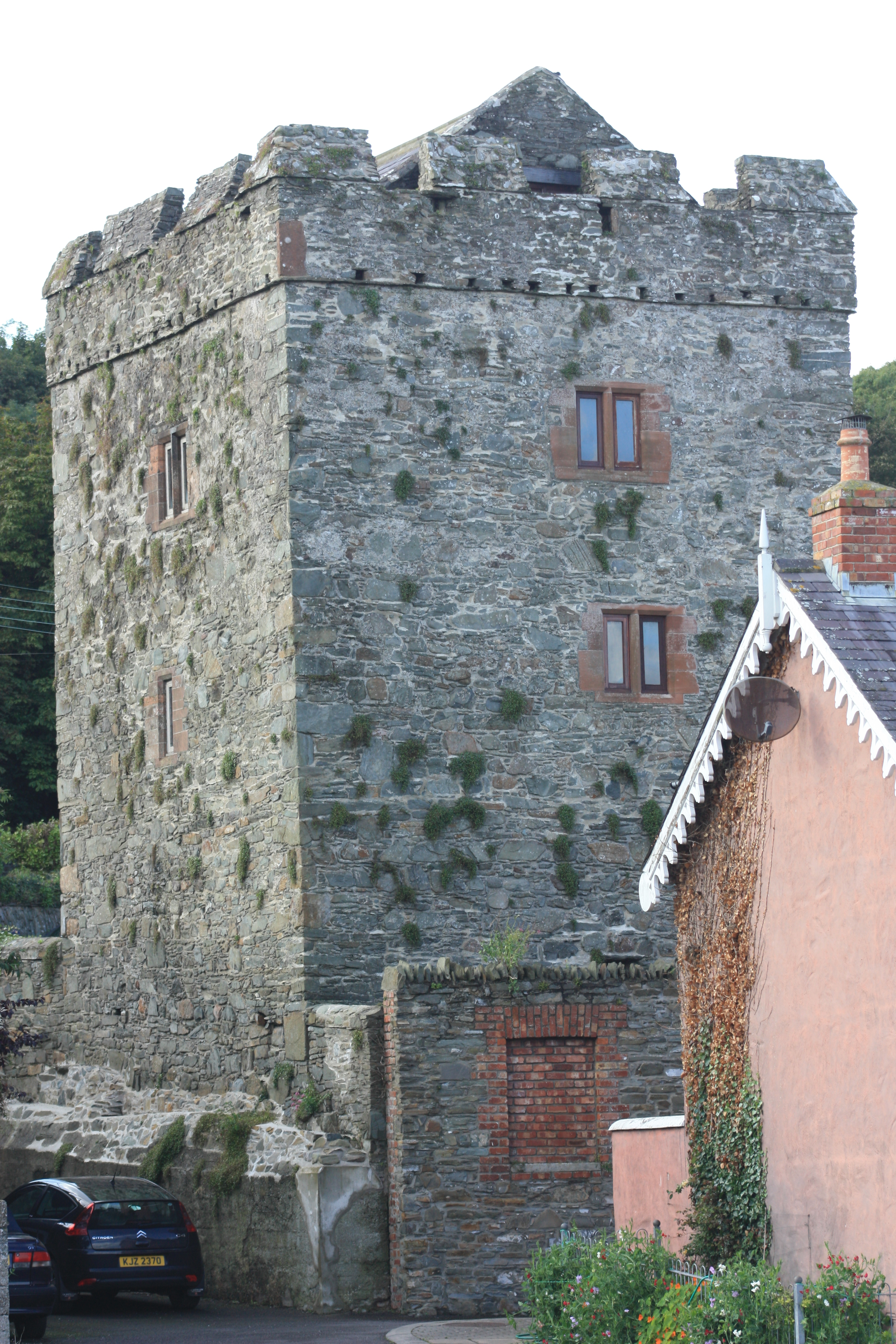 Strangford Castle, Strangford, County Down, Northern Ireland, August 2009